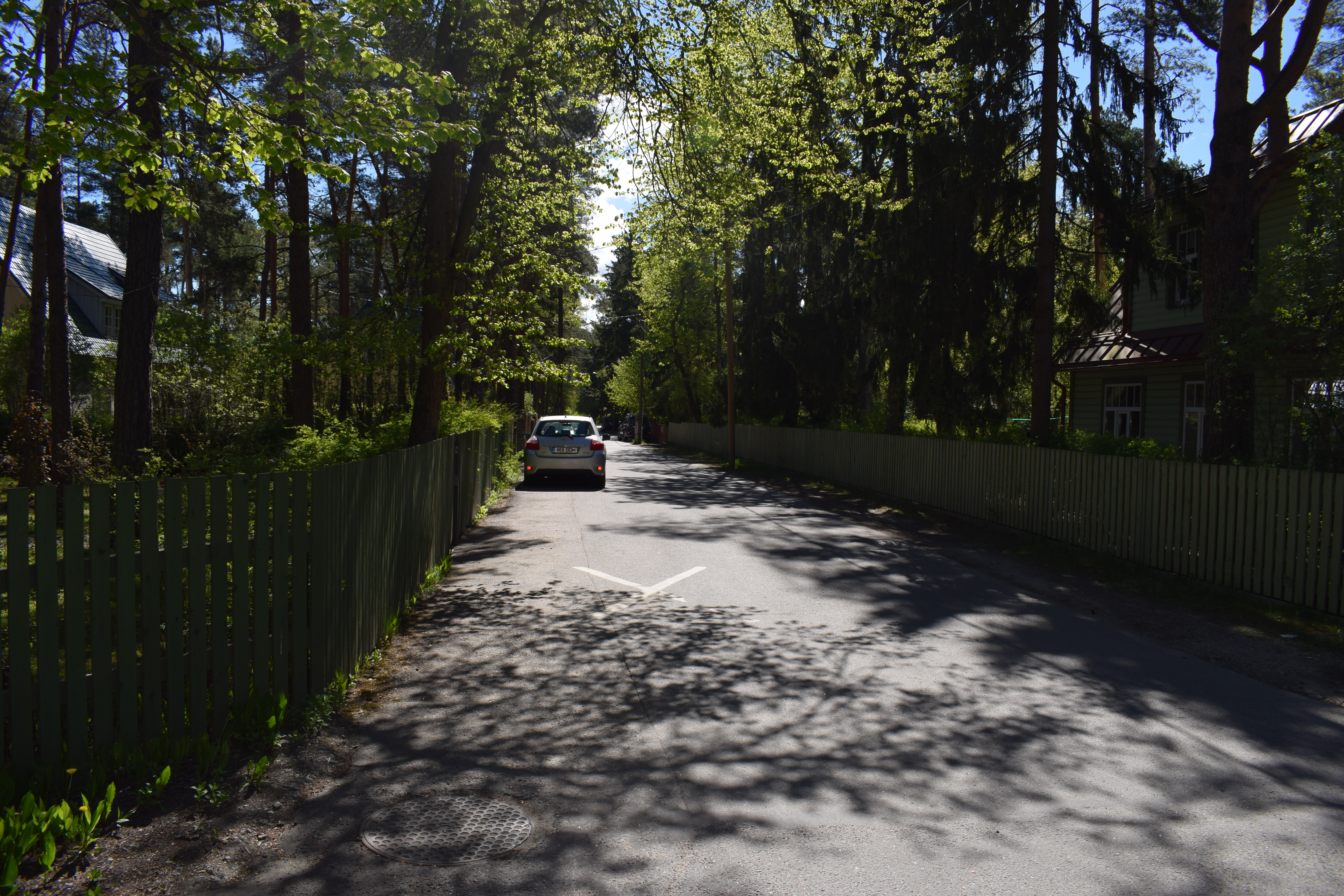 Side street